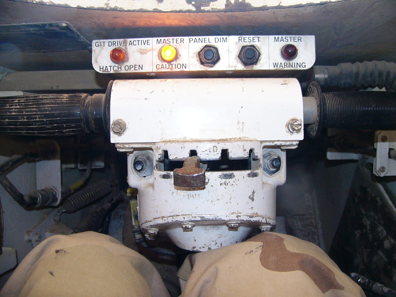 Driving controls of an M1A1 Abrams Battle Tank.